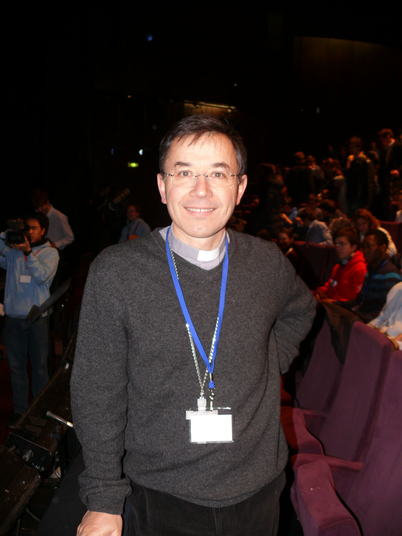 The bishop Hervé Gaschigniard of Dax at Ecclesia Campus 2012 in Rennes (Ille-et-Vilaine, Bretagne, France).